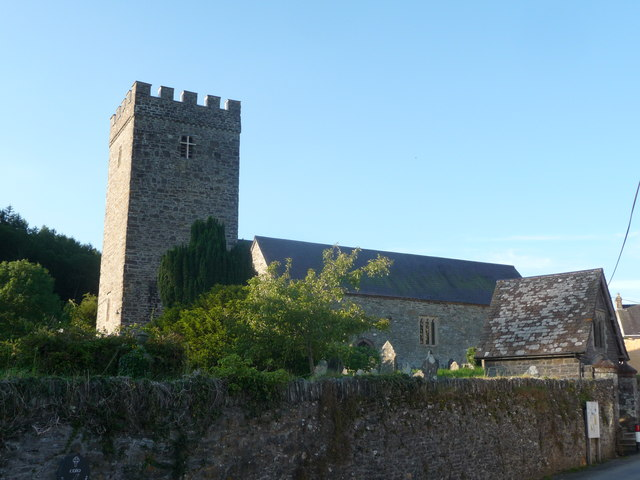 St. Cynwyl's parish church, Caio / Caeo, Carms.